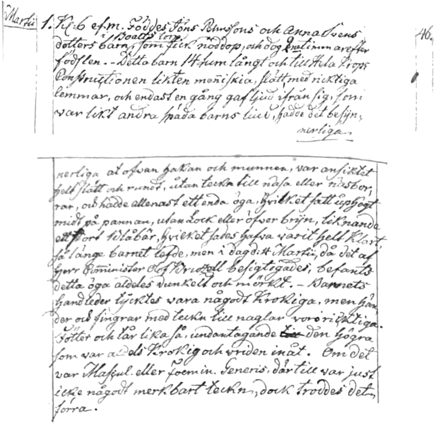 Glimåkra Parish Register CI:3 (1752-1800) page 174 + 175, Birth and Baptism 1793 March 1. At 6 pm. was born Jöns Pehrssons and Anna Svens dotters child in Boalts Torp, which received an emergency baptism and died 2 hours after the birth. This child 14 inches long and with the entire body construction like a human, with right limbs, and which only once made a sound, which was like the sounds of other infants, had the strange that above the chin and mouth, the face was completely smooth and round, with no sign of a nose nor nostrils, and had only a single eye, which sat raised on the middle of the forehead, without lid and eyebrow, like a large blueberry, which was said to have been wholly clear, as long as the child lived, but today 4 March, when it by mister curate Olof Bruzell was inspected, was found to be entirely dim and dark. The wrists of the child seemed somewhat crooked, but hands and fingers with signs of nails were right. Feet and toes likewise, except the right which was completely crooked and bent inwards. Whether it was of masculine or feminine gender, there was no apparent sign, although the former was believed. 46 (1793-03-01 is a Friday) (46 is the age of the mother) (1 Swedish inch = 24.742 mm. 14 inches: 35cm) (Although the child received an emergency baptism no name is registered) (A biography of Cominister Olof Bruzell is in S. Cavallin, Lunds stifts herdaminne. Part 5, p. 456)